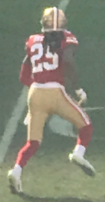 Richard Sherman in 2018